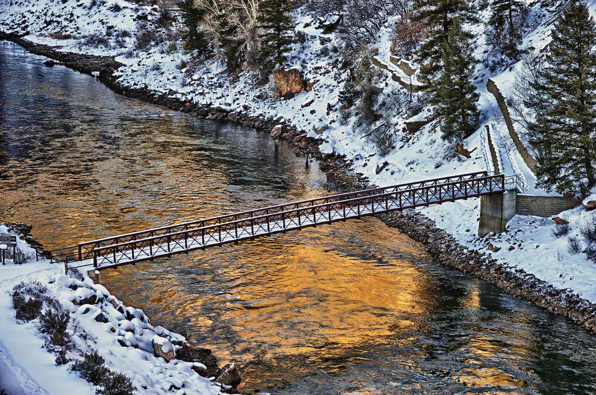 A nature trail bridge below the Morrow Point Dam in the Black Canyon of The Gunnison National Park, Colorado The river to the right is the Gunnison River. The confluence of the Cimmarron River and the Gunnison is at left. Two fishermen are at top center of the photograph. This is an HDR image created from 4 original digital image captures.